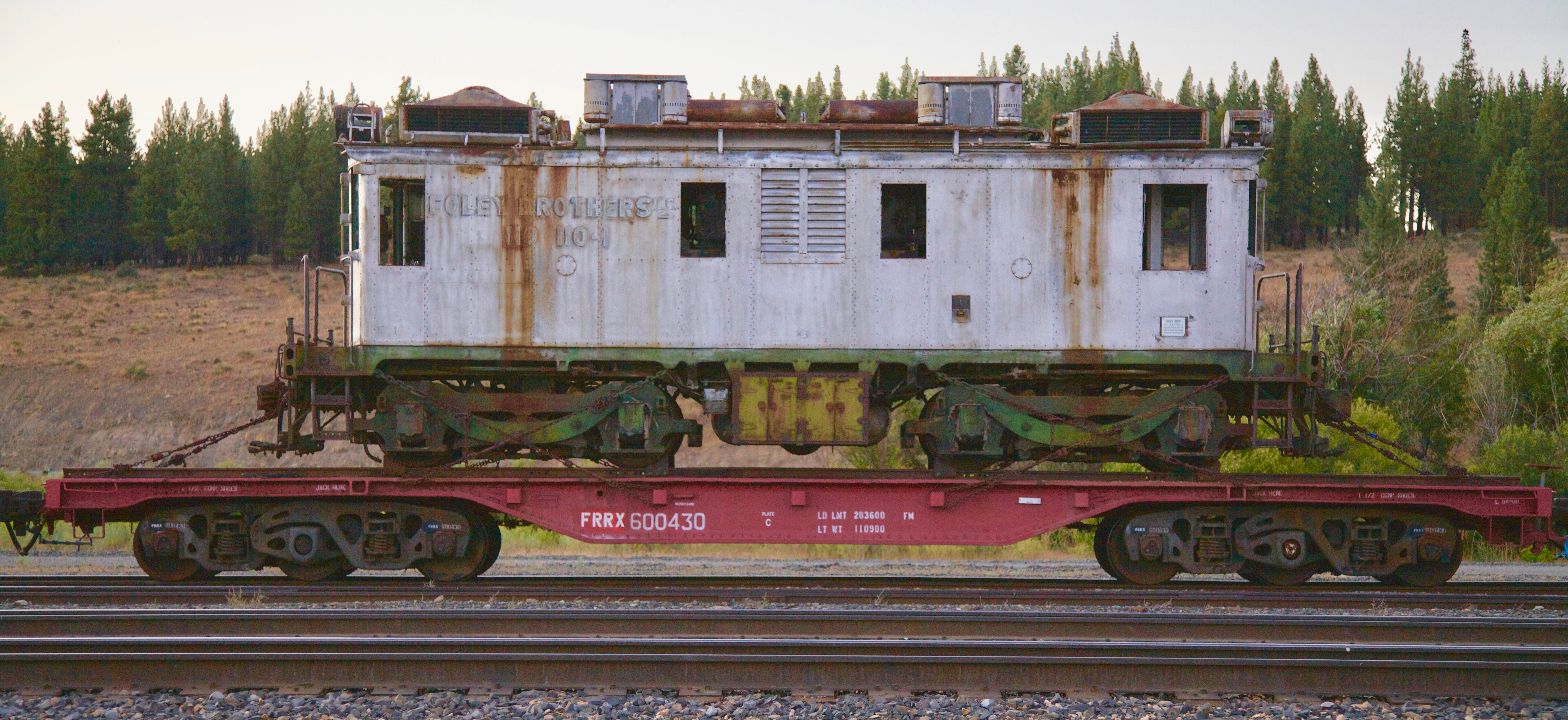 This is the only surviving 100-ton double-engine GE boxcab - a diesel-electric switching locomotive. This was sitting on the siding in Portola, CA across from the Western Pacific Railroad Museum. I believe this would have been built before 1930. Note that the flatcar has an extra set of flanges wheels on each of its trucks to handle this heavy locomotive.